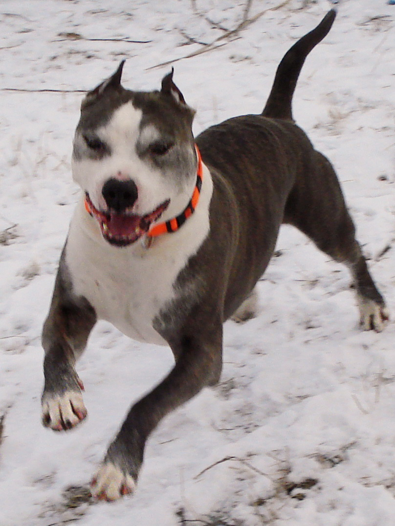 Amstaff having fun and exercise. This breed need 1-3 hour of exercise daily. In this way they will be happy and healthy.